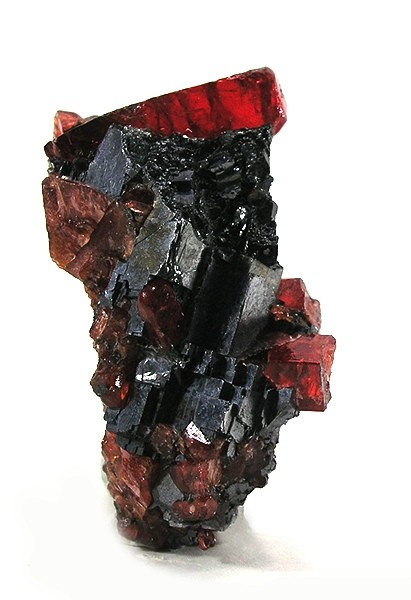 Rhodonite, Galena Locality: Broken Hill, Yancowinna County, New South Wales, Australia (Locality at ) A 2.3 x 0.6 x 0.5 cm crystal of GEM rhodonite, perched in contrasting galena matrix! GEMMY rhodonite crystals, of this magnitude, are SO rare! I am told this came out in the 1940s. The crystal is complete, and fully terminated (though as is typical, the termination is a bit rounded by nature). I have seen in 2 decades only 3 specimens of this calibre for sale. It is not about size, but about the beauty and quality of this gem crystal....this is a RARE treasure! I was shocked when i saw it available. 4.4 x 2.4 x 2.4 cm